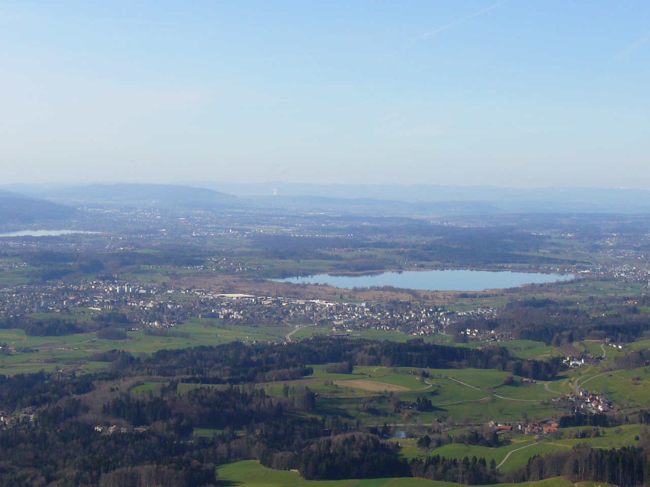 lake of Pfäffikon (Pfäffikersee), canton of Zurich, Switzerland. Picture taken from the top of the mountain Bachtel.